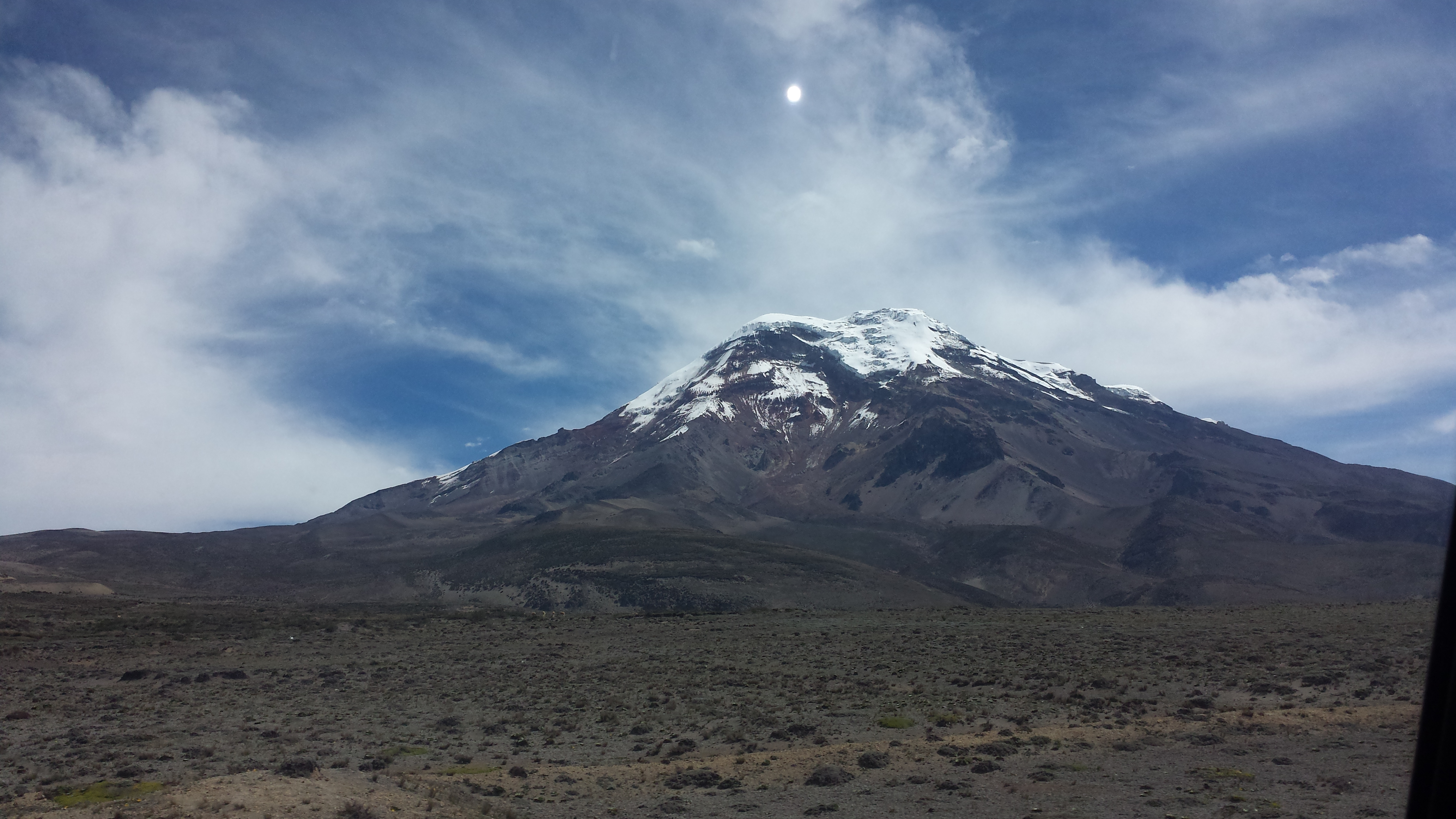 Volcán Chimborazo